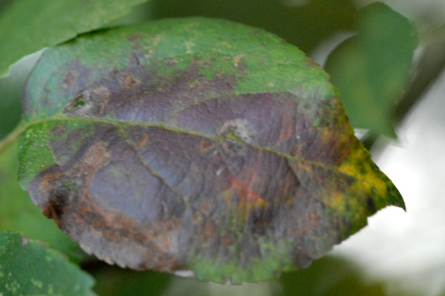 Venturia inaequalis from Commanster, Belgium. The determination of the species shown in this picture has been verified.